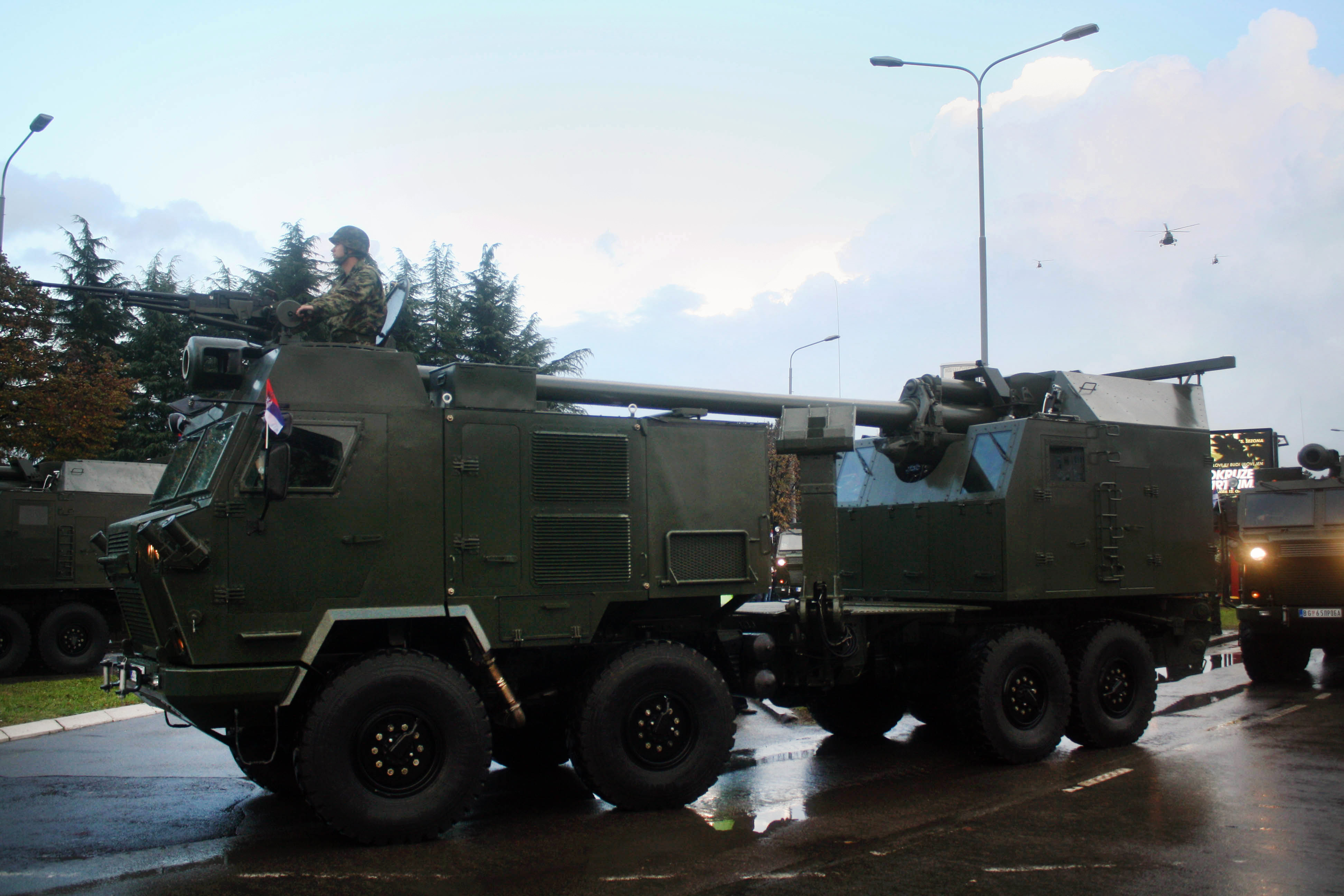 NORA-B52 155 mm self-propelled gun, project developed by Yugoimport SDPR for export, during the military parade "March of the Victorious" on the occasion of marking 100 years since the beginning of the Great War and 70 years since the liberation of the capital in the Second World War.